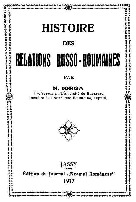 Nicolae Iorga - First page of Histoire des relations russo-roumaines, published by Neamul Românesc, Iaşi in 1917.